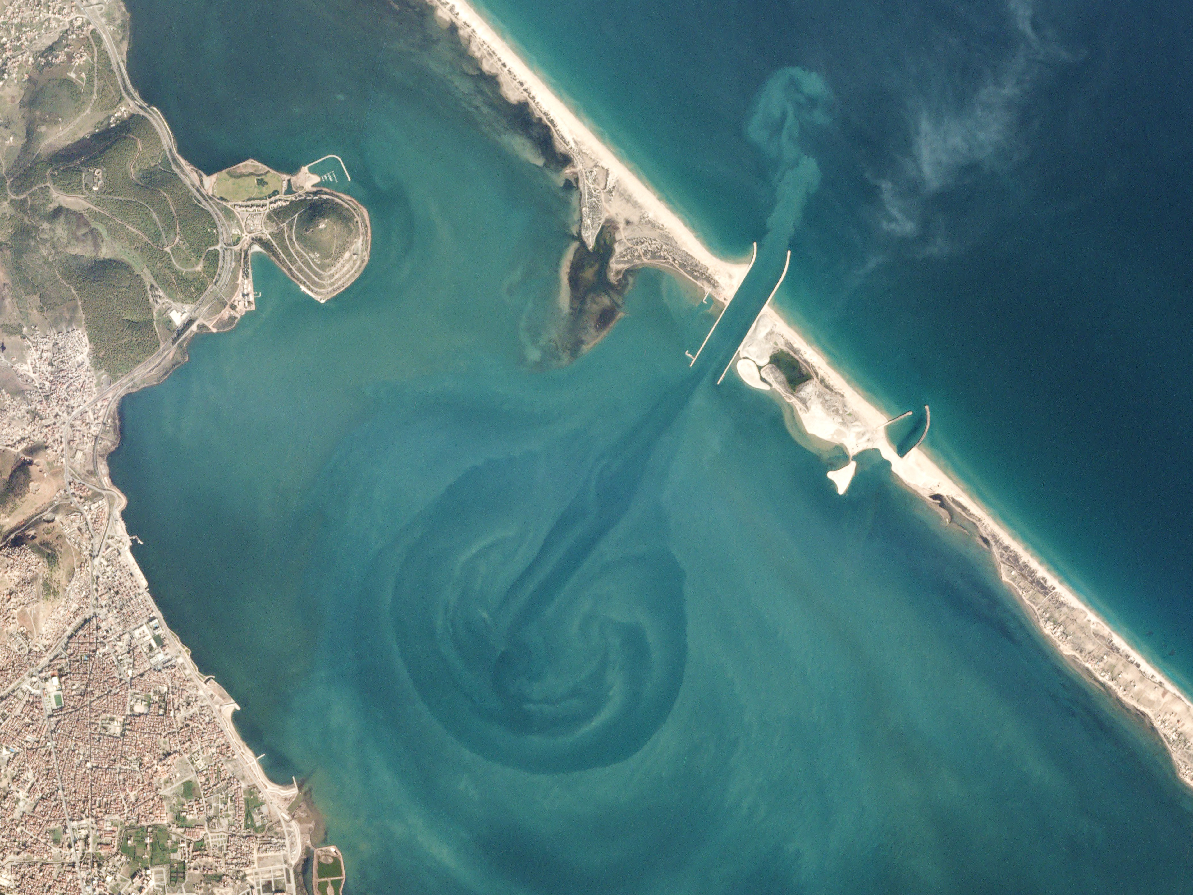 Nador, Morocco January 3, 2017 The Moroccan city of Nador is sheltered from the Mediterranean by Mar Chica, a sandy saltwater lagoon. Mar Chica has a shallow maximum depth—only eight meters—allowing us to see the ebb and flow of tides clearly from space.